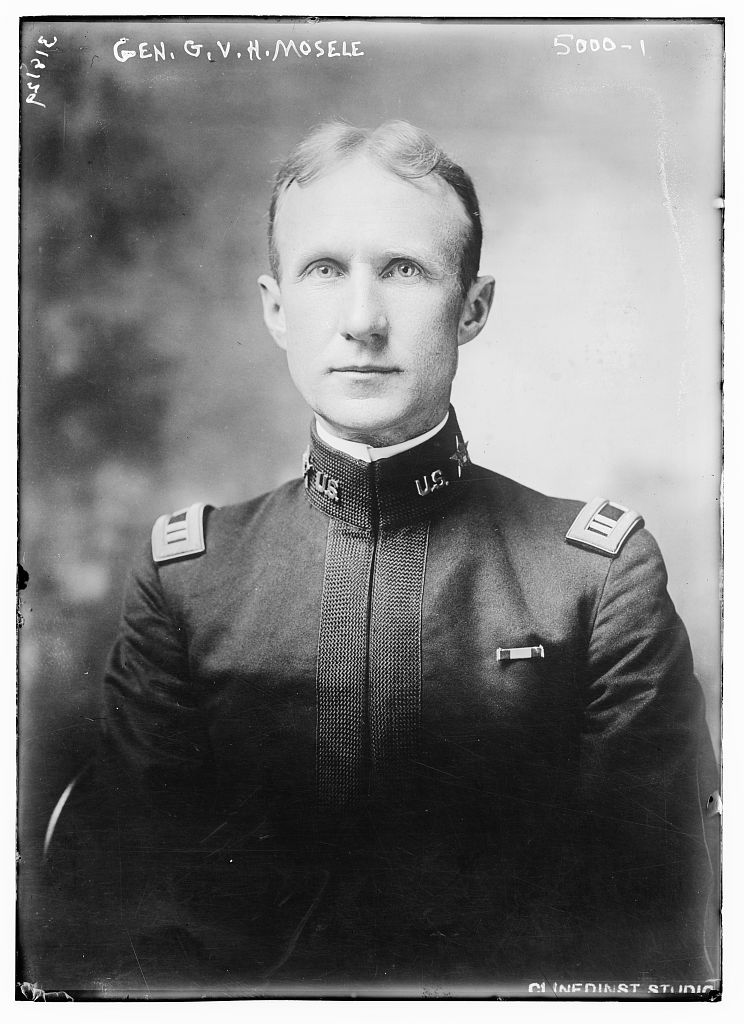 George Van Horn Moseley in 1919